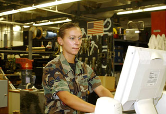 Senior Airman Holly Oatmeyer at Camp Justice - Diego Garcia